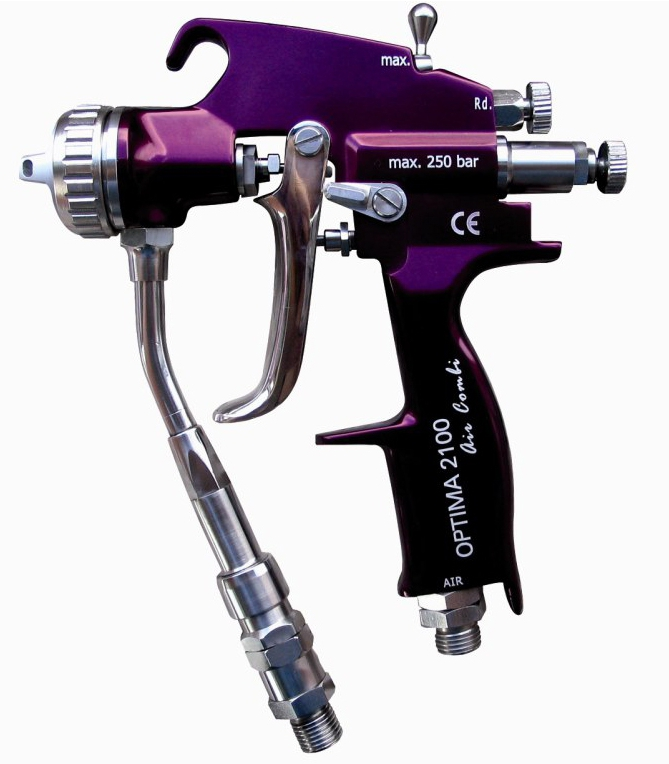 "AIRCOMBI HIGH PRESSURE" spray gun